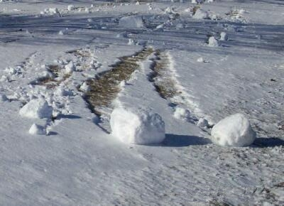 Snow rollers were photographed at the Lincoln Christian College, by NWS personnel in Lincoln. Tracks that the rollers took can be seen trailing behind. (The snow rollers generally moved in an eastward direction.)